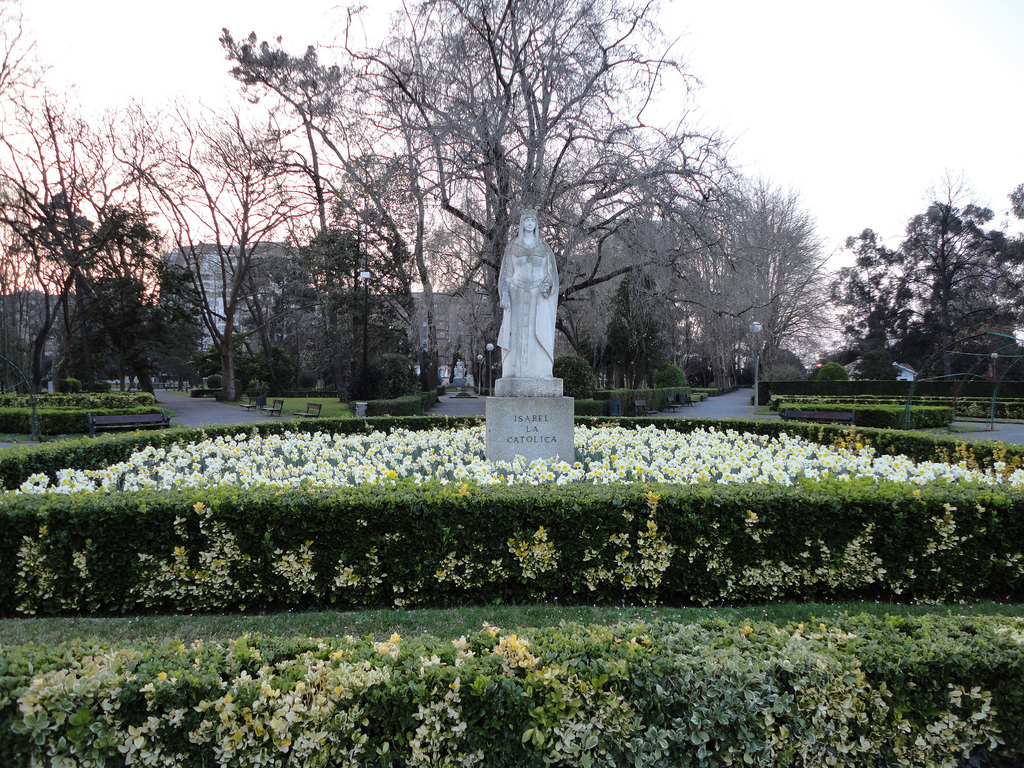 A statue in Parque Isabel la Católica, Gijon, Spain.